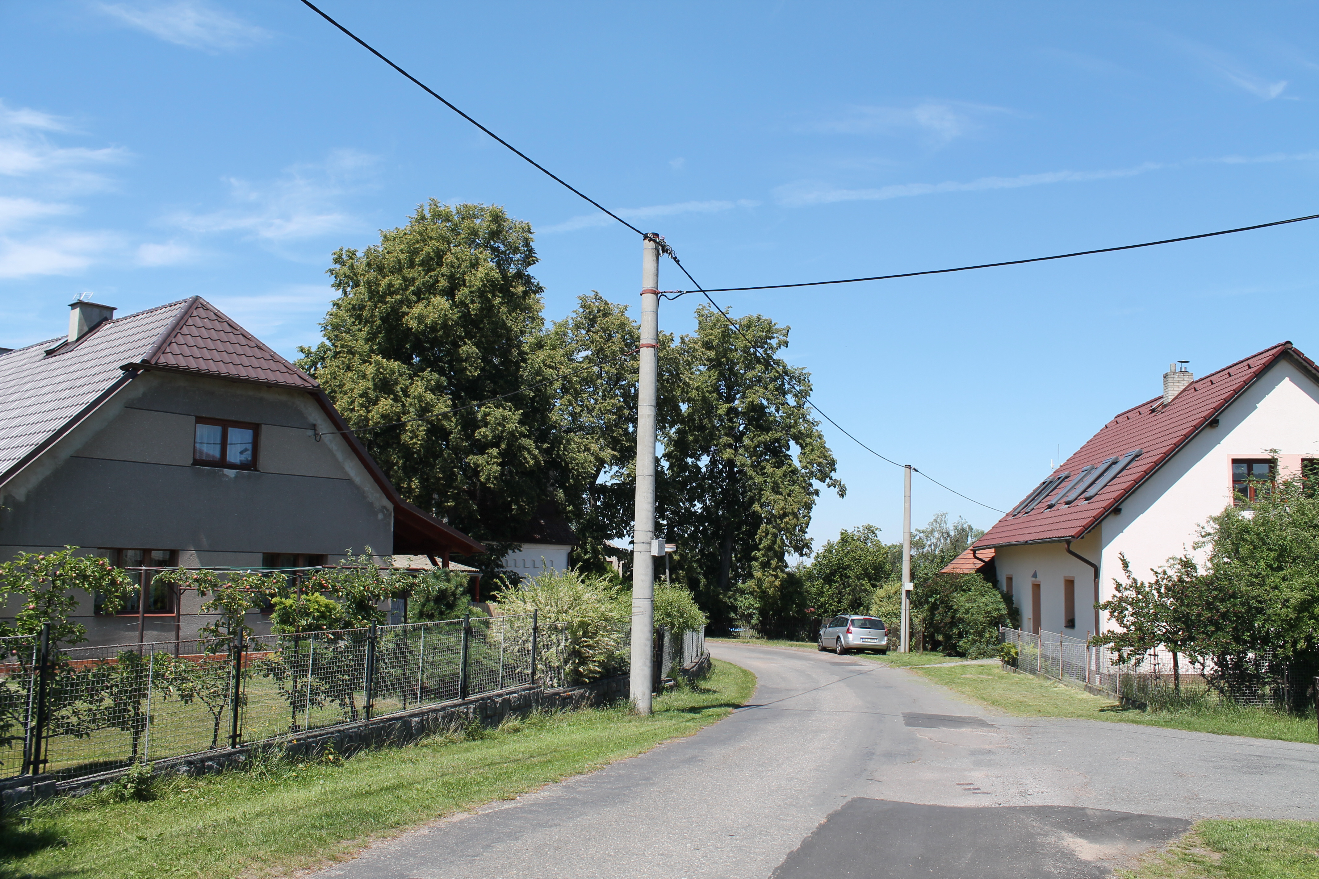 Vranov, Ctětín, Chrudim District, Czech Republic